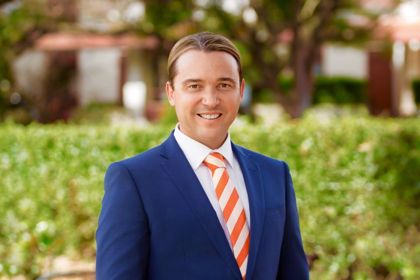 Craig Rosevear works as an auctioneer in Newcastle,Central Coast and Sydney for Cooley's Auctions